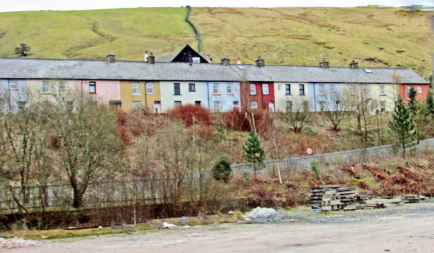 Tebay Village Cumbria (Westmoreland) ex-railway workers cottages from the West Coast Main Line